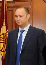 Maxim Bakijev